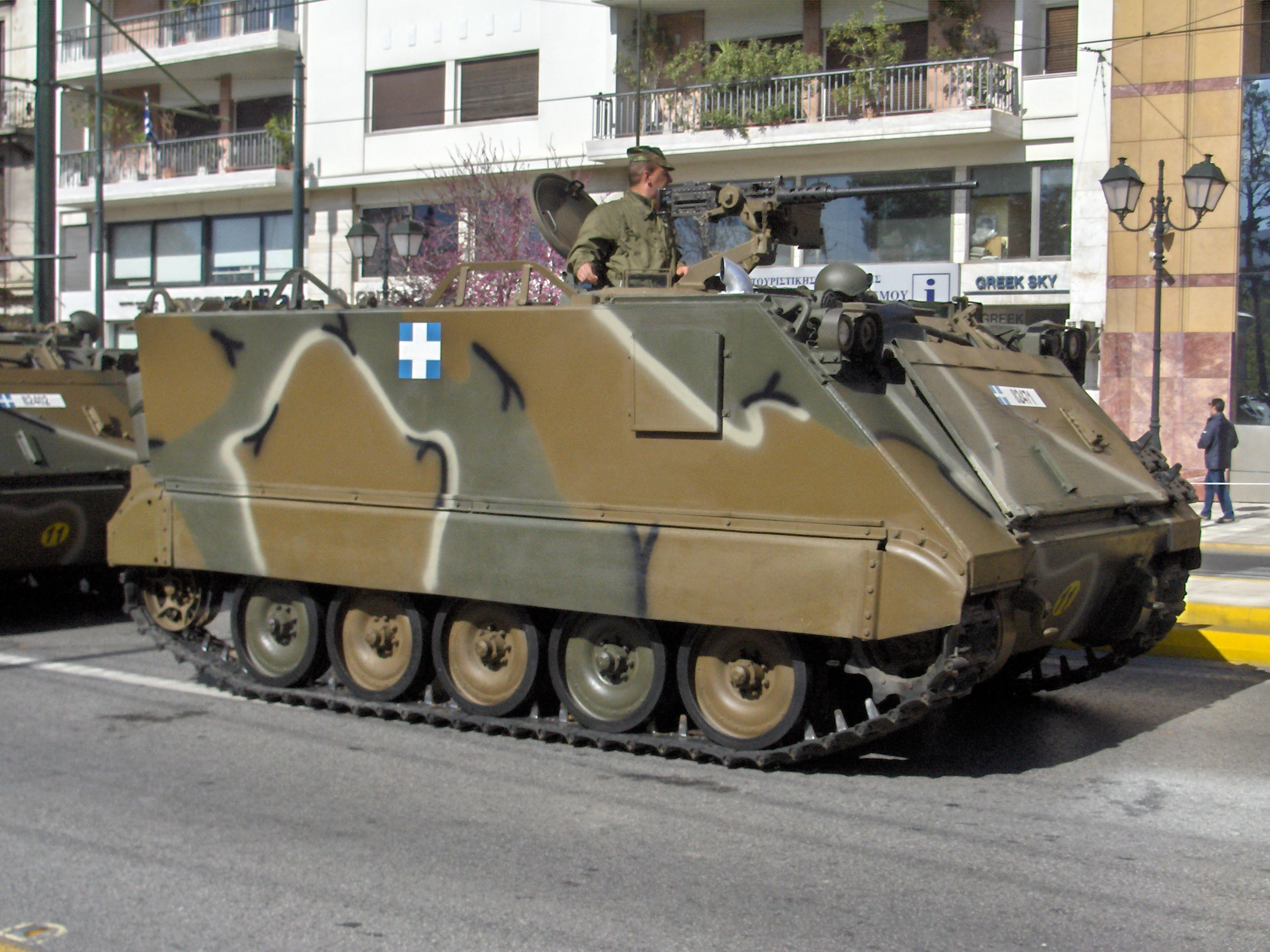 Hellenic Army armoured vehicle at the parade in Athens.